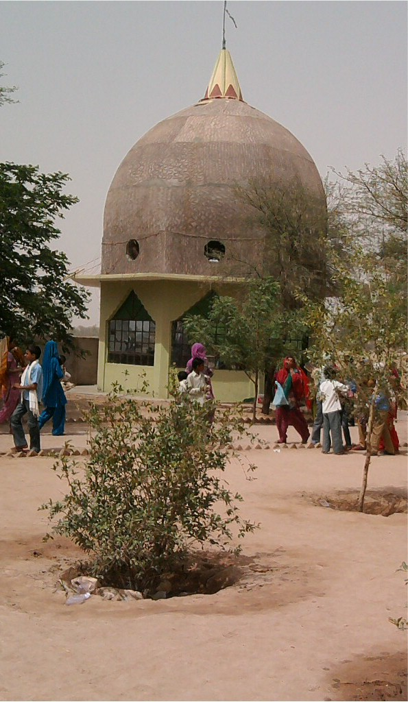 I ,Sivender Singh(user:Shemaroo) have taken this photo.This photo show you outer view of so-called tomb of 'Laila-Majnu' at 6MSR(Binjaur) village near Anupgarh, India. Shemaroo (talk) 09:49, 14 June 2012 (UTC)